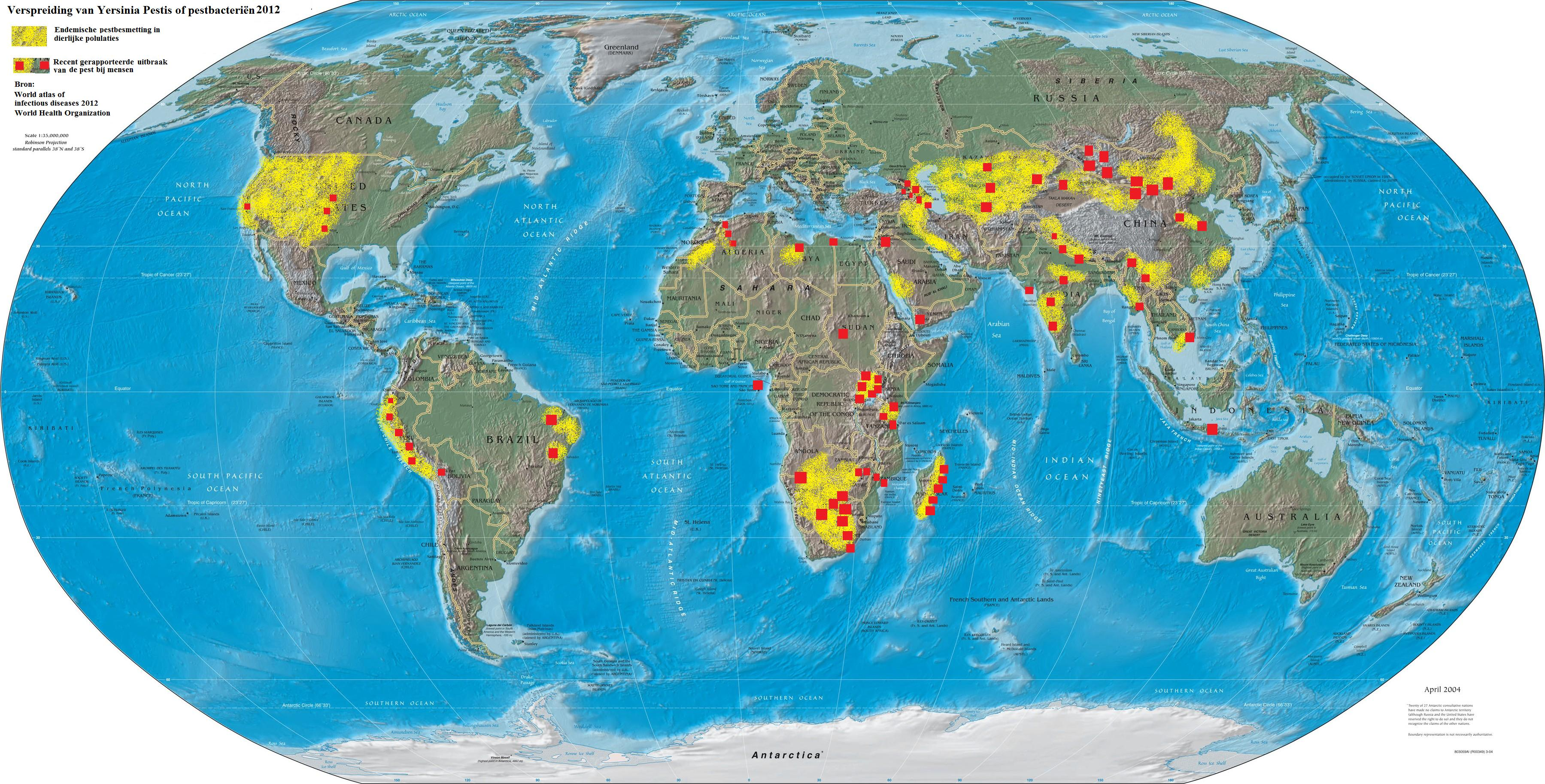 Map of the spread of the plague